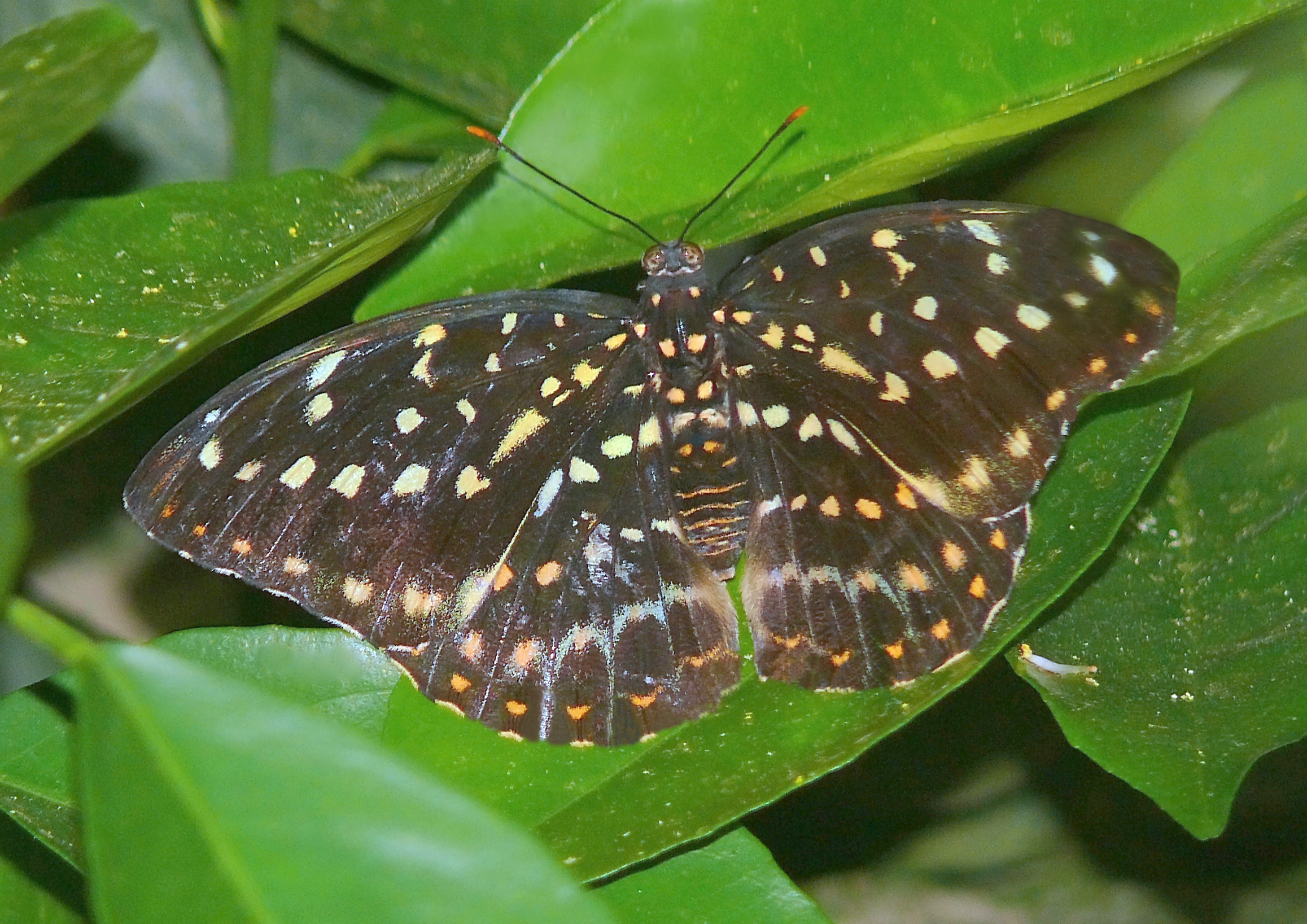 Female Lexias pardalis - dorsal view - taken at Krohn Conservatory.